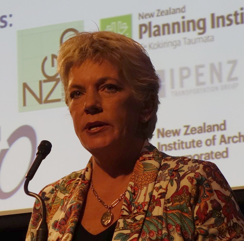 Penny Hulse speaking at an Auckland Conversations event